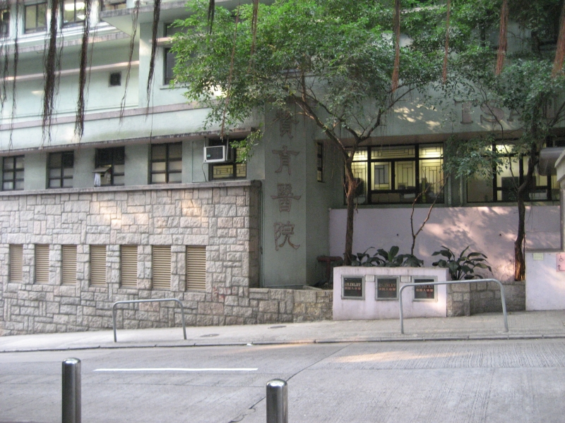 Tsan Yuk Hospital